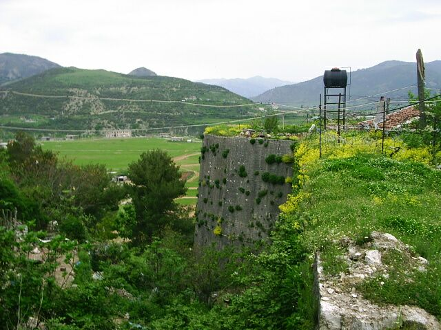 A fortress in Tepelenë in Albania